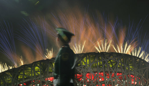 Fireworks explode over China's National Stadium in Beijing Friday night, Aug. 8, 2008, during the finale of the Opening Ceremonies for the 2008 Summer Olympics.